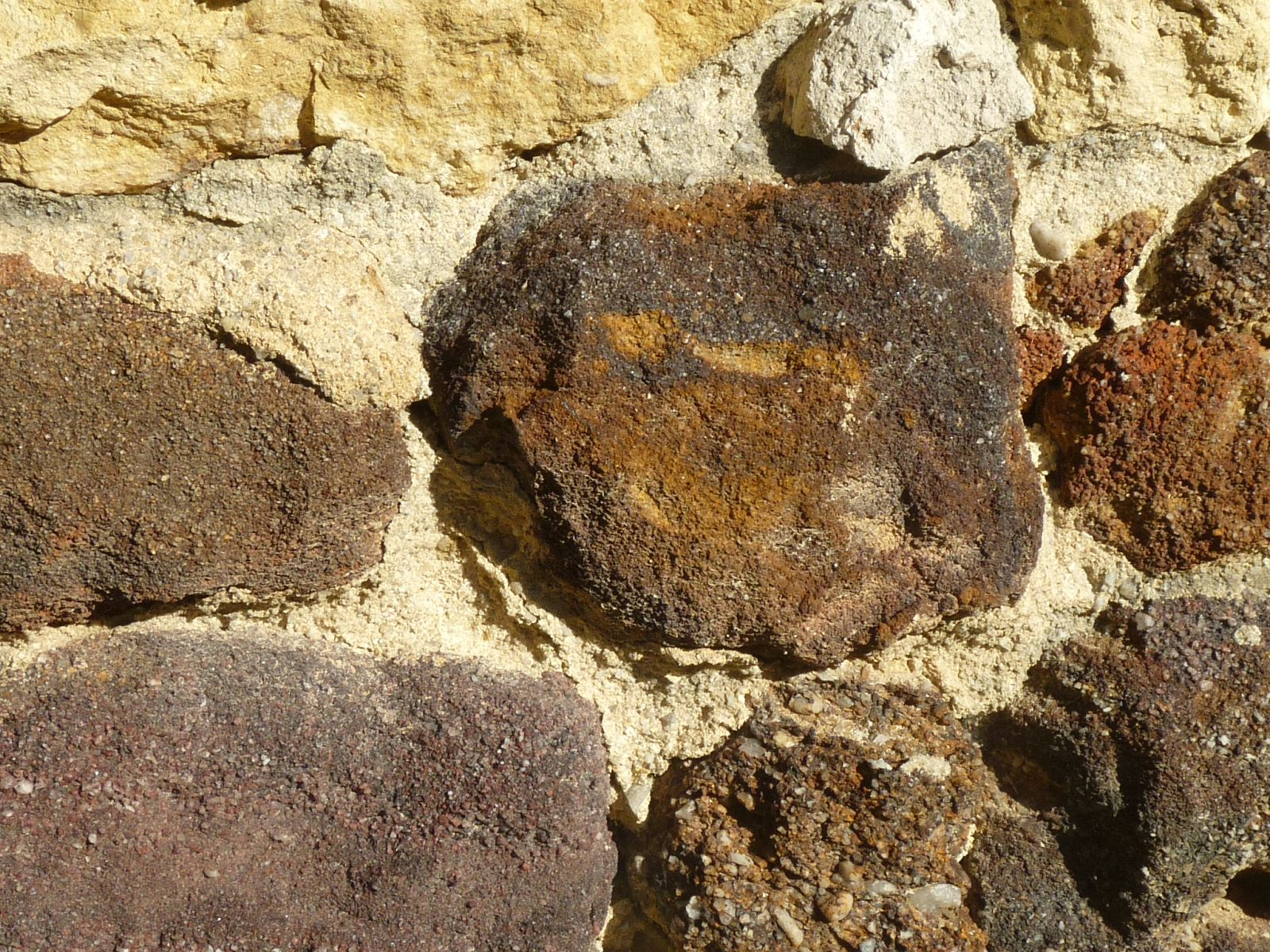 alios (sandy iron ore) in a tower of Montendre castle, Charente-Maritime, France